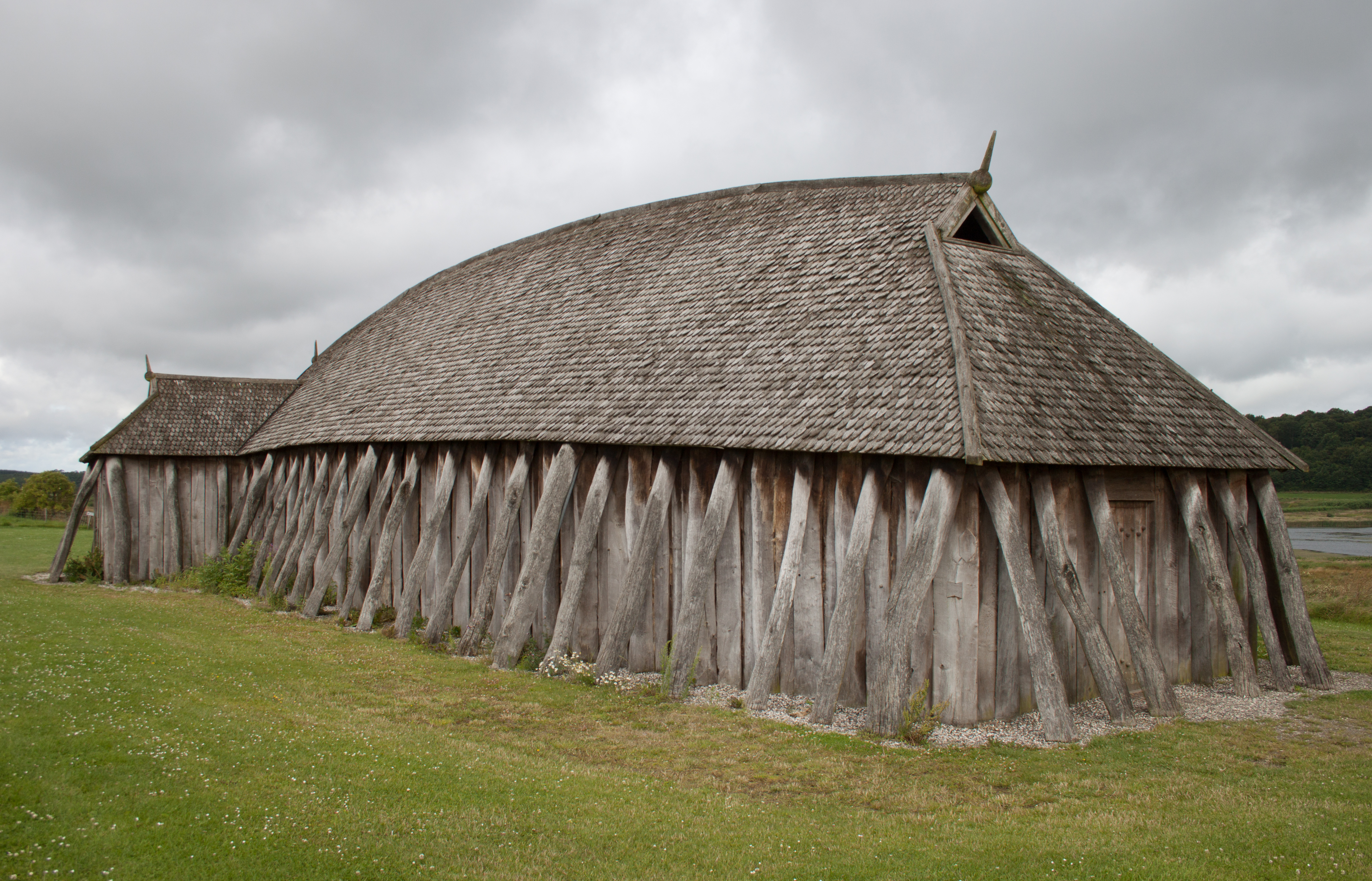 Reconstruction of a viking house in Fyrkat